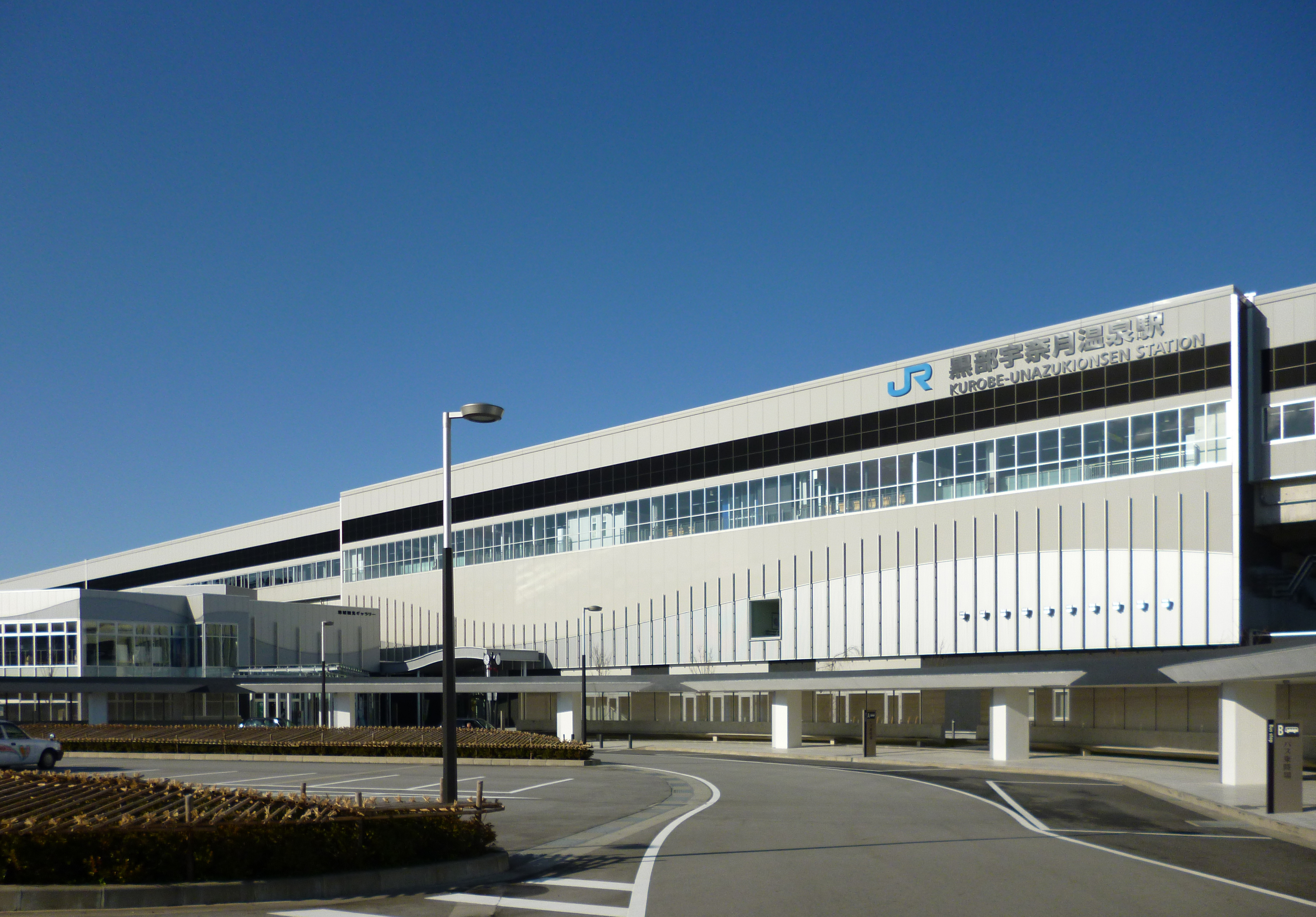 The east entrance of Kurobe-Unazukionsen Station in Kurobe, Toyama, Japan